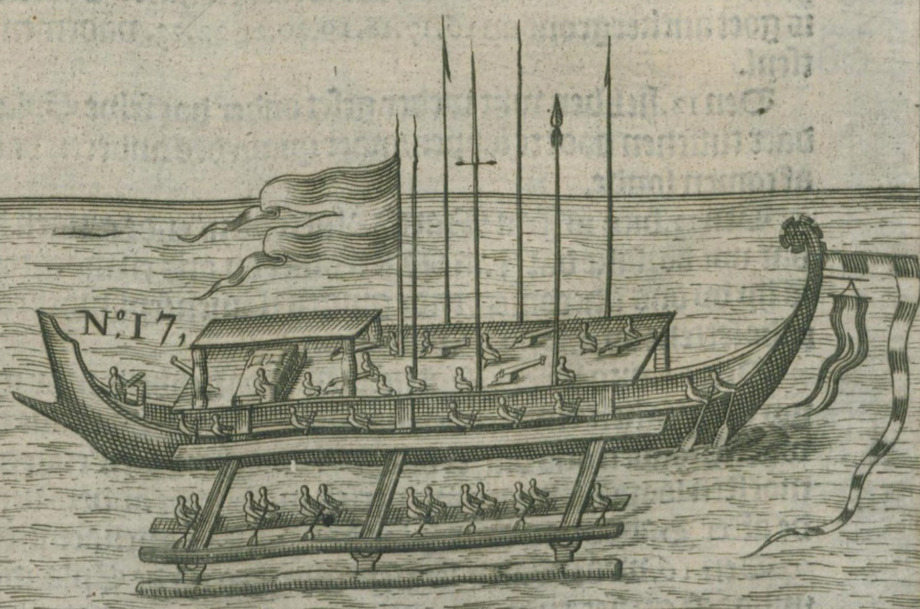 The cora cora of the king of Ternate, with an extension built onto both sides lying almost flat on the water on which the slaves and servants are sitting and rowing at all times. Above on this cora cora are sitting several people which are playing on drums and other instruments. There are also 7 great cannons on top surrounded by several long spears. On the top of this cora cora is a nice bed, beautifully decorated and gilded on which the king's harness hangs lined velvet. This bed was covered with a beautiful blanket on which the king lays down and also sits and has somebody next to him at all times who is fanning him with a fan.